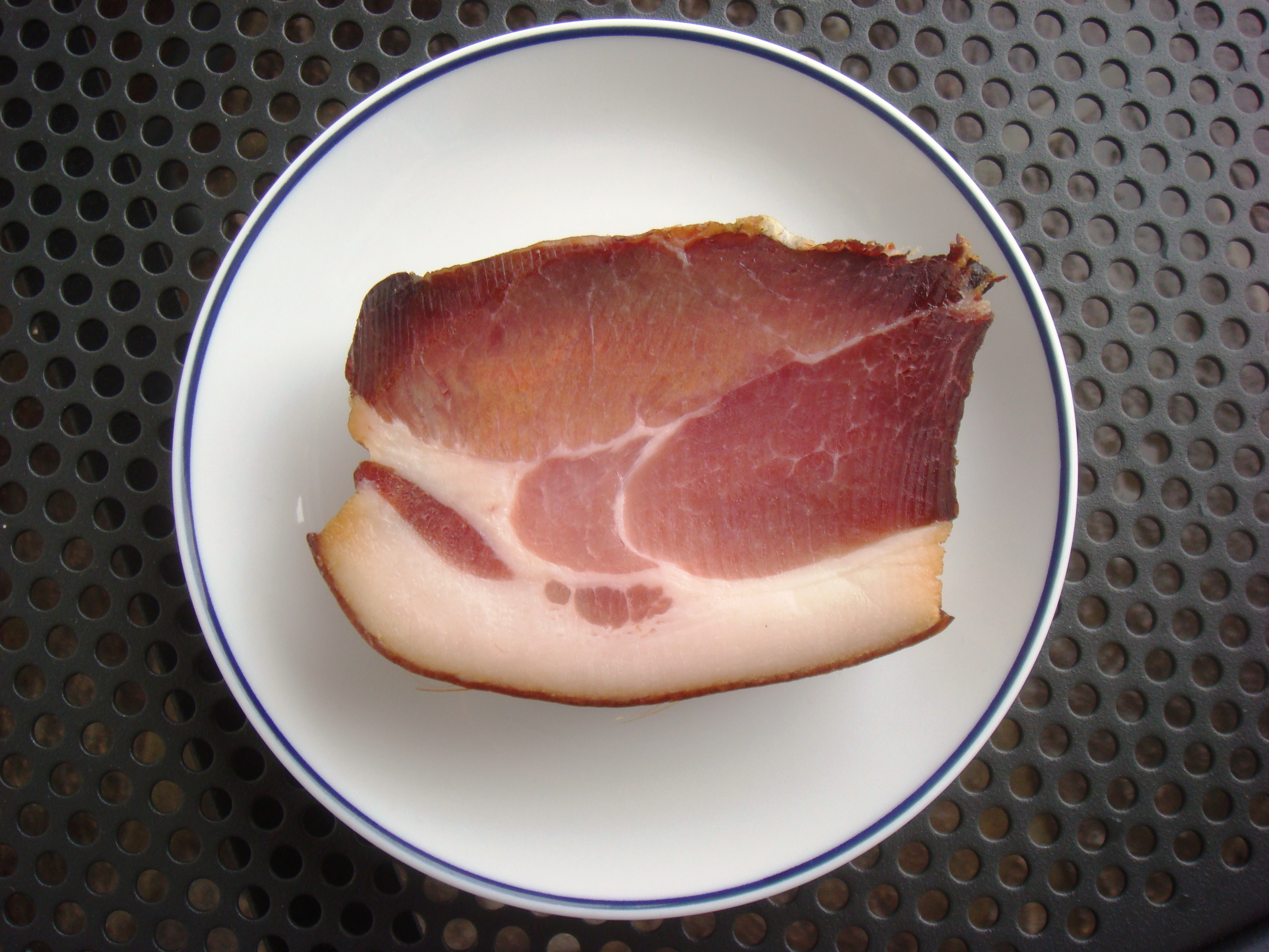 Bacon from Großraming